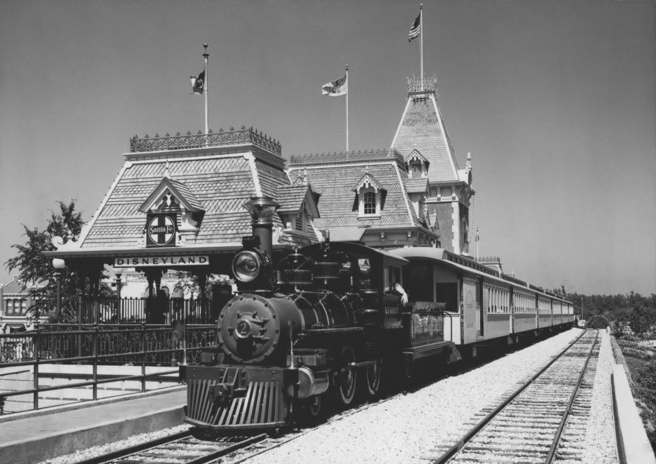 Photo of Disneyland engine #2, E.P. Ripley, at the Disneyland Main Street station.